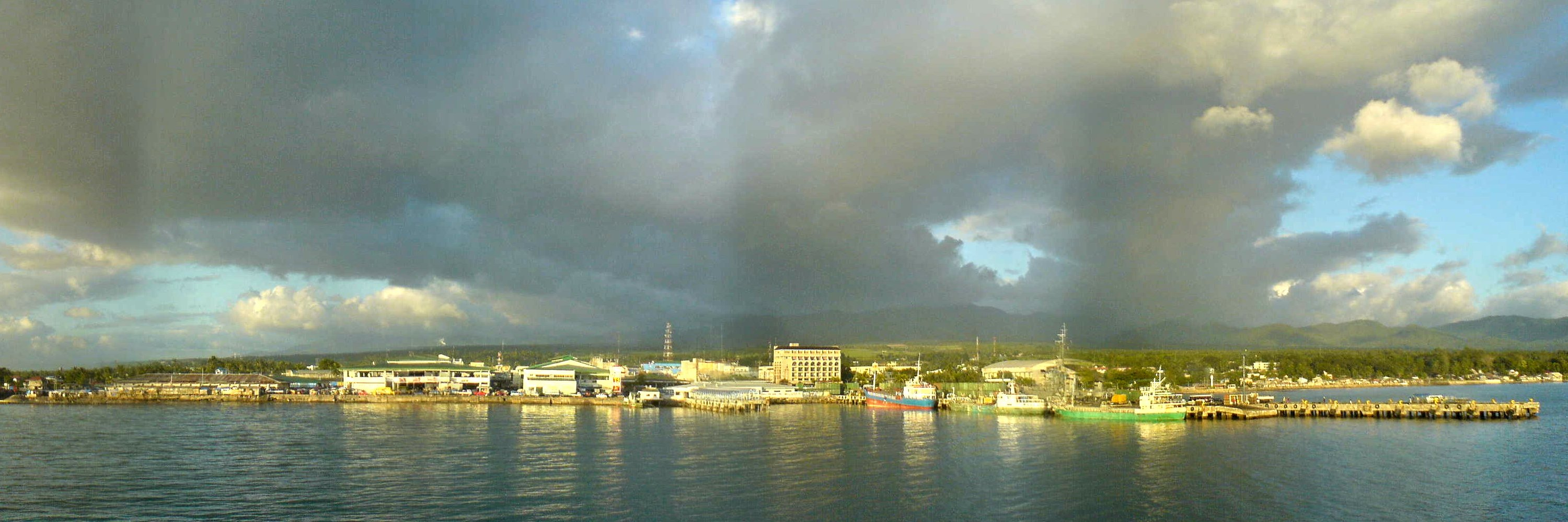 Ormoc, Leyte, Philippines, as seen from the approaching ferry